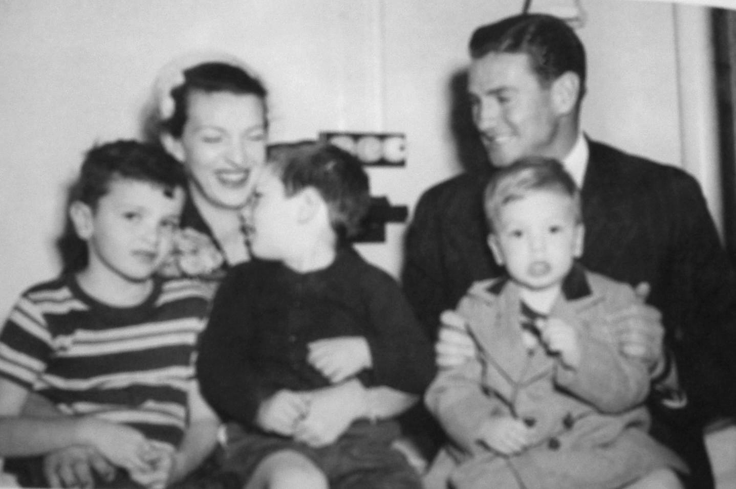 Keith Miller and his family